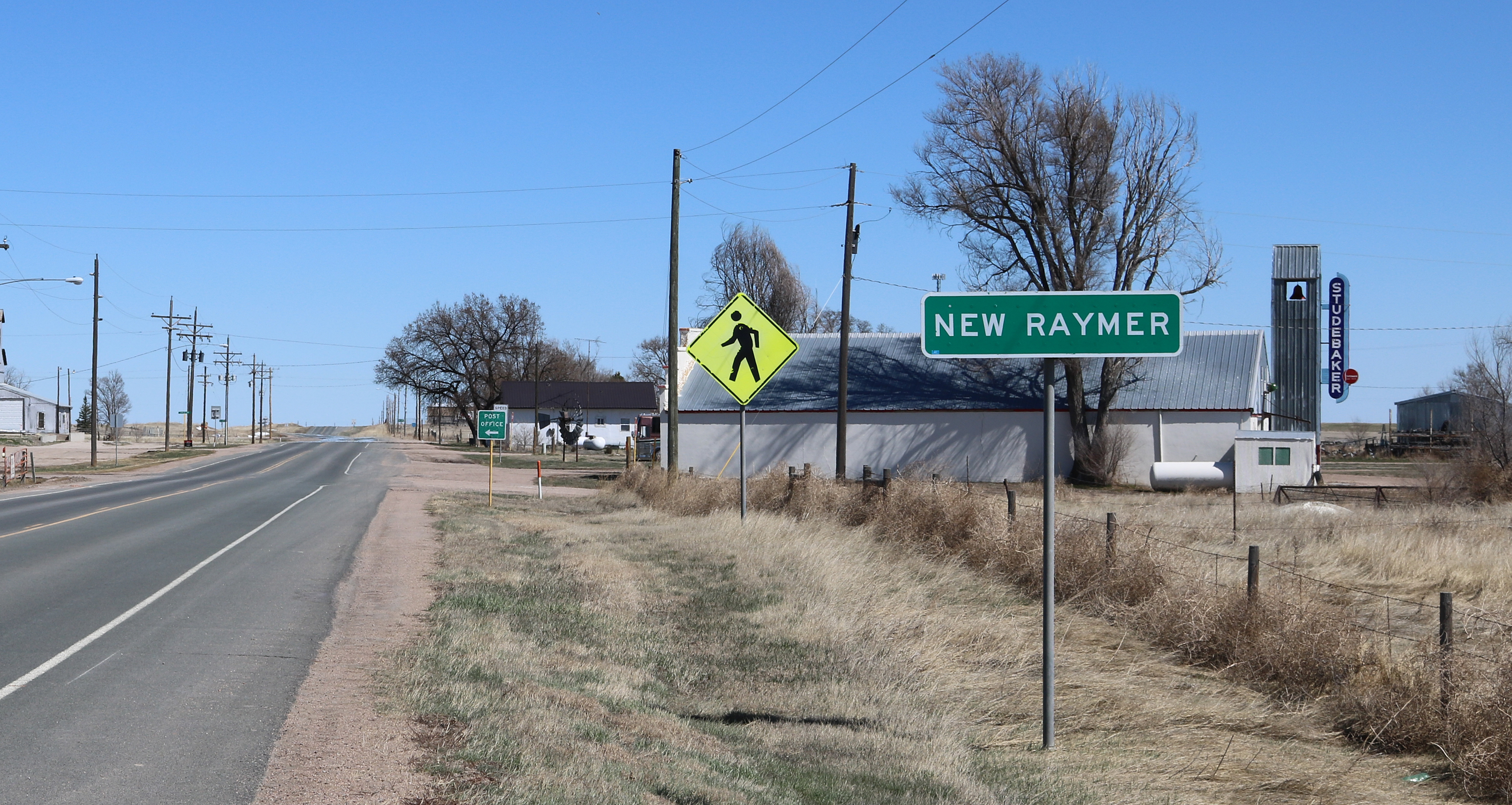 The town of Raymer, Colorado. The town is also called New Raymer. The highway in the picture is Colorado State Highway 14. Note the old Studebaker sign on the right.